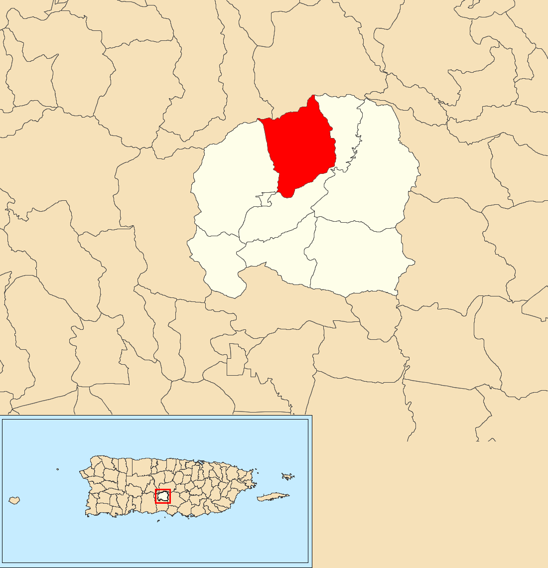 Vacas, Villalba, Puerto Rico locator map